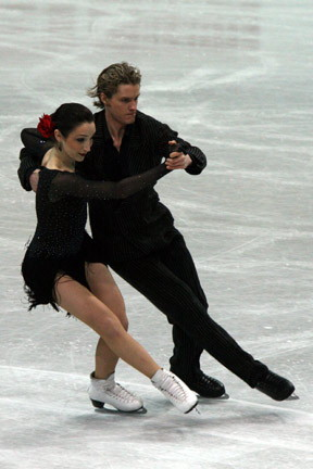 Meryl Davis & Charlie White during their Argentine Tango compulsory dance at the 2008 World Figure Skating Championships